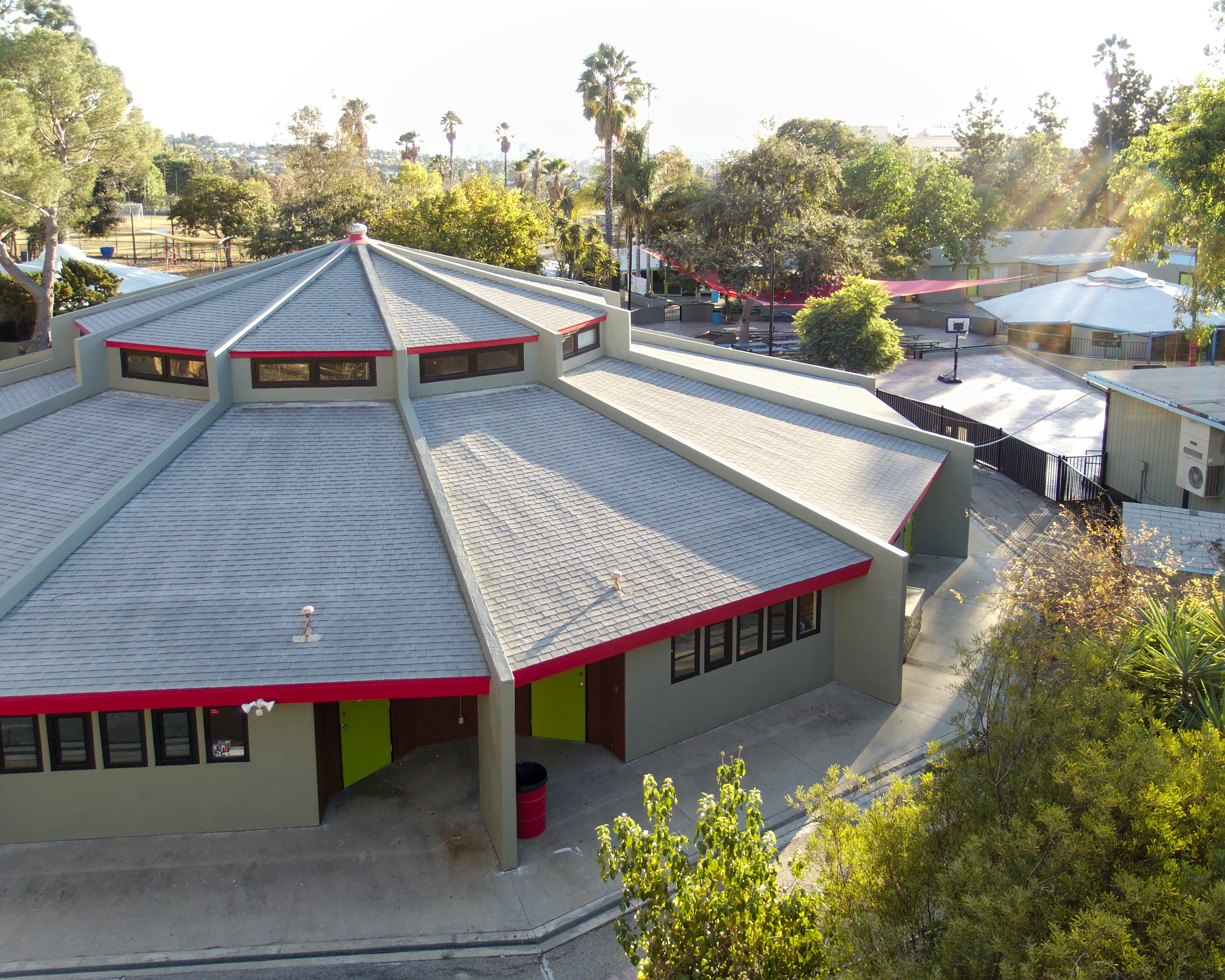 Midtown School buildings, LAHCM 553, view south from the Franklin Avenue bridge.